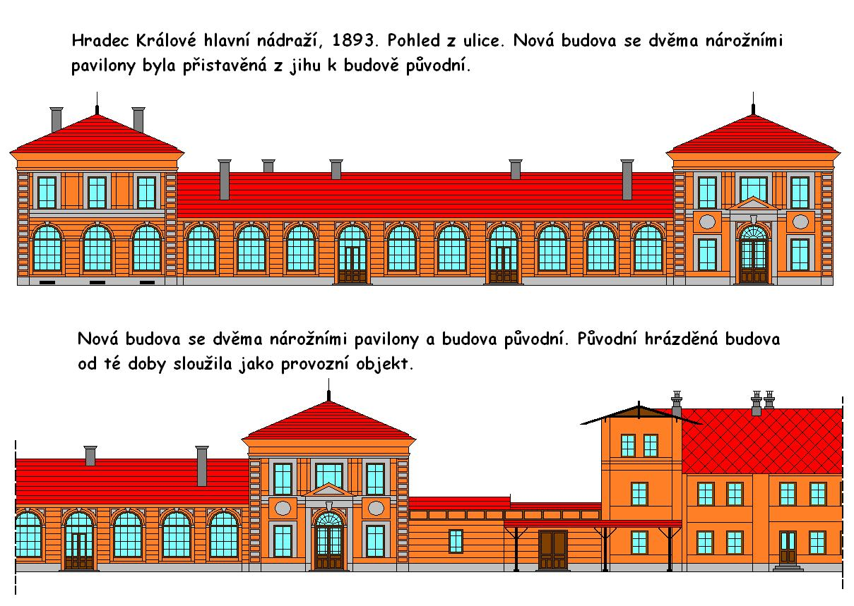 The nonexistent railway station in Hradec Králové. Built in 1893. Was found at the same place, what the present station Hradec Králové hlavní nádraží.